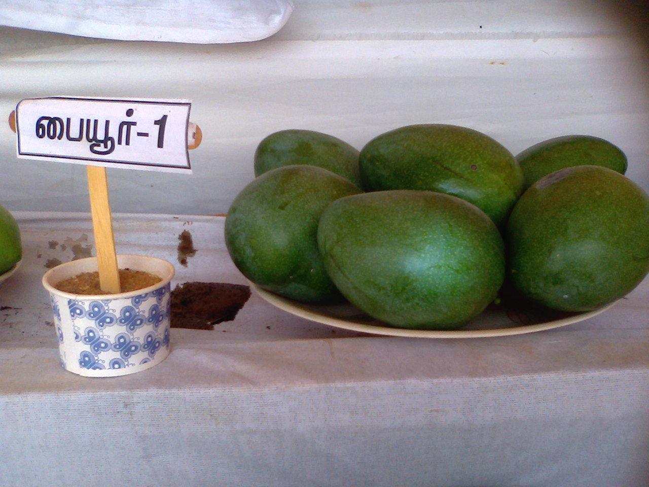 பையூர். 1